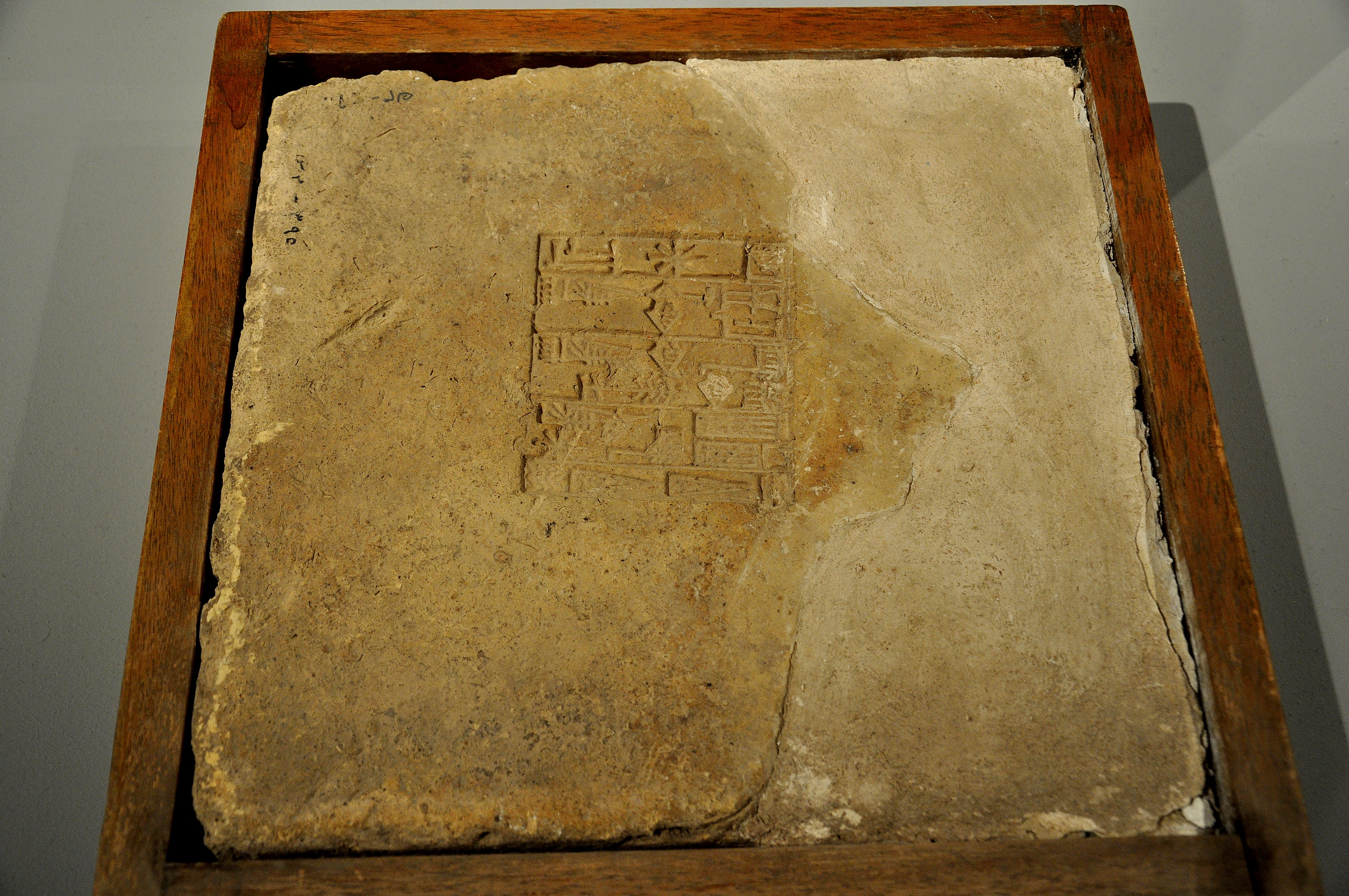 A mud-brick stamped with the name of Ur-Nammu, king of Ur. The Sulaymaniyah Museum, Iraq.